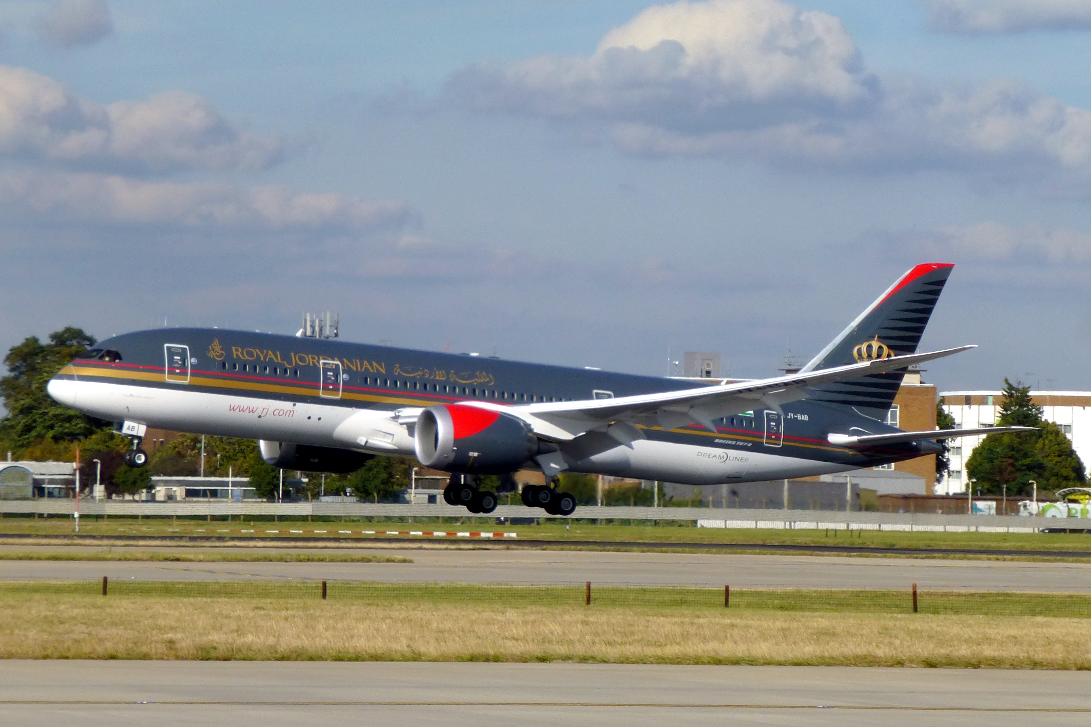 JY-BAB Boeing 787 Dreamliner Royal Jordanian about to touch down on rwy 027R on its first visit.